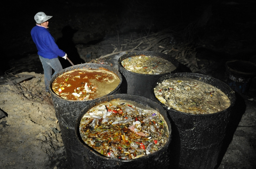 The worker is processing the collected food waste for manufacturing food oil